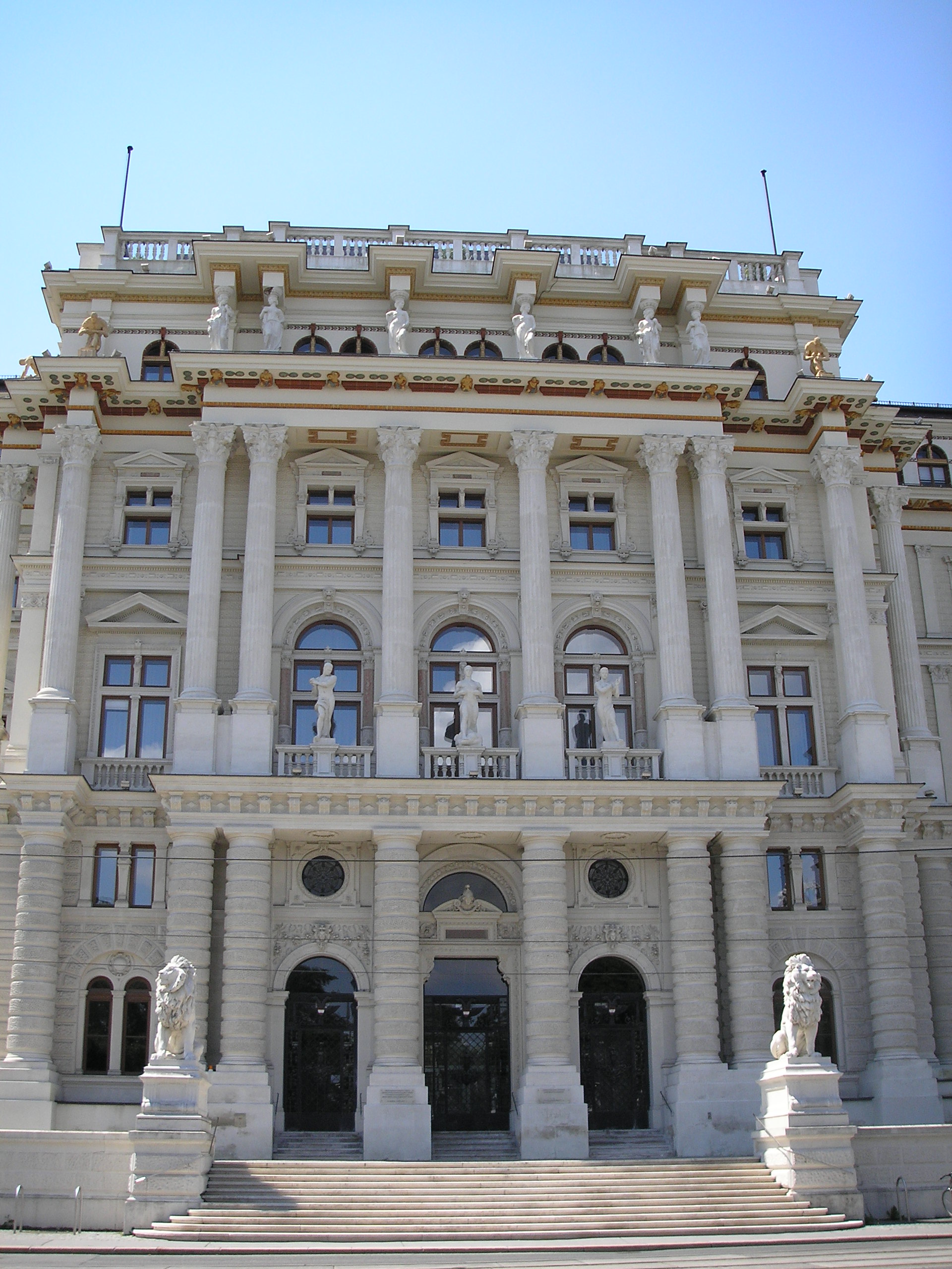 The Justizpalast in Vienna.